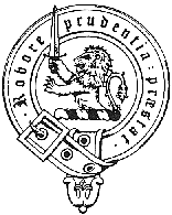 Clan badge for clan Young